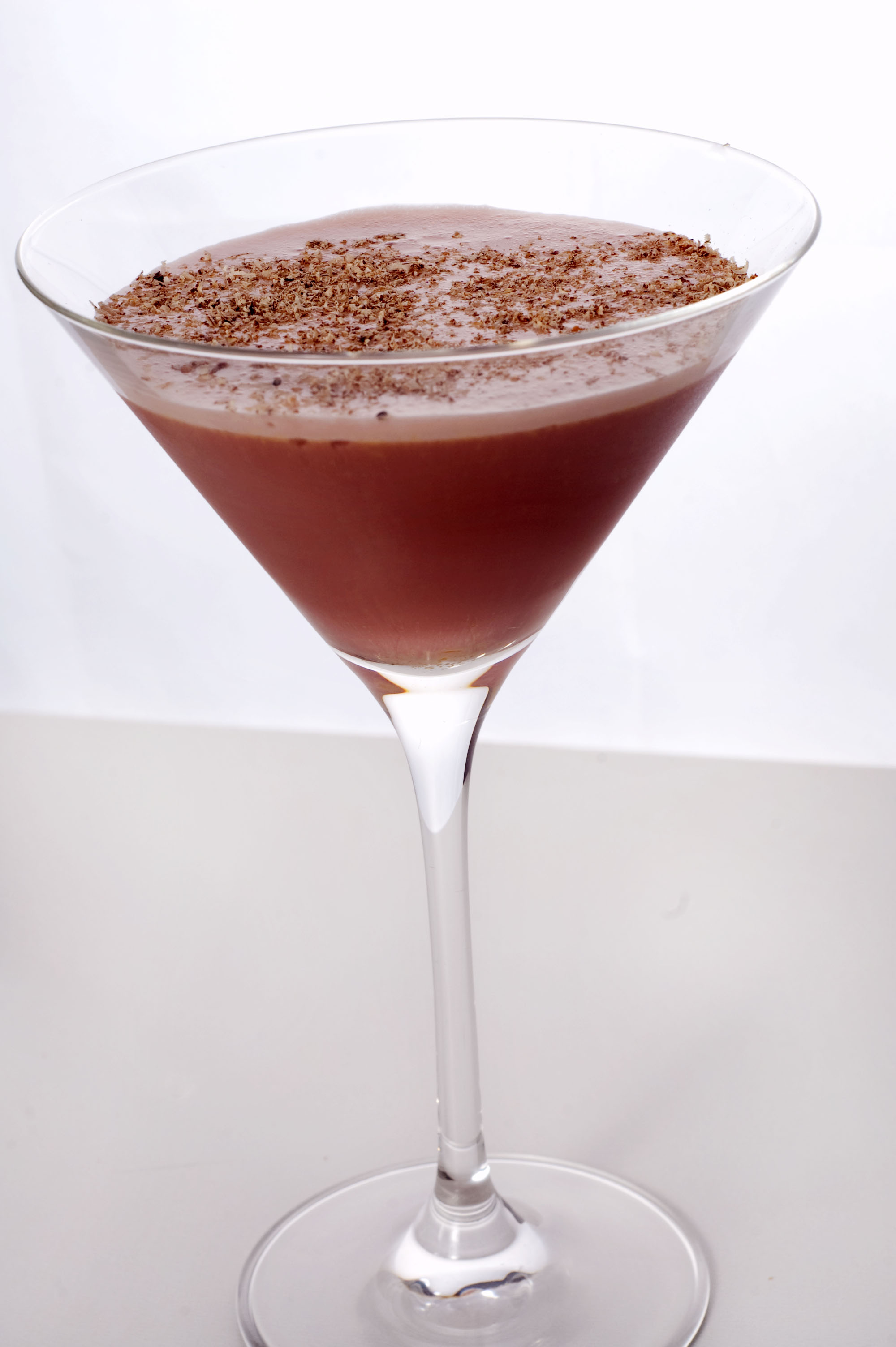 Recipe can be found at